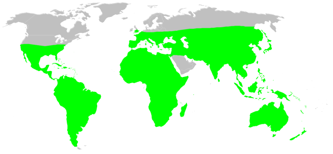 Sparassidae habitat distribution, drawn after Platnick: World Spider Catalog 7.0. This is not at all a precise rendering of the distribution! If you have better information, please replace this map, or send me the info, and i will redraw it.